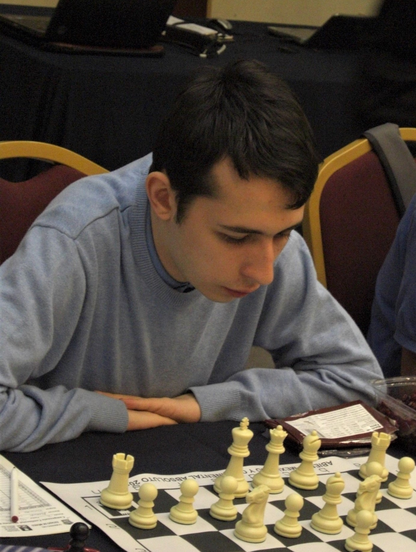 Aleksandr Lenderman during the American Continental Chess Championship in Toluca (Mexico), April 2011